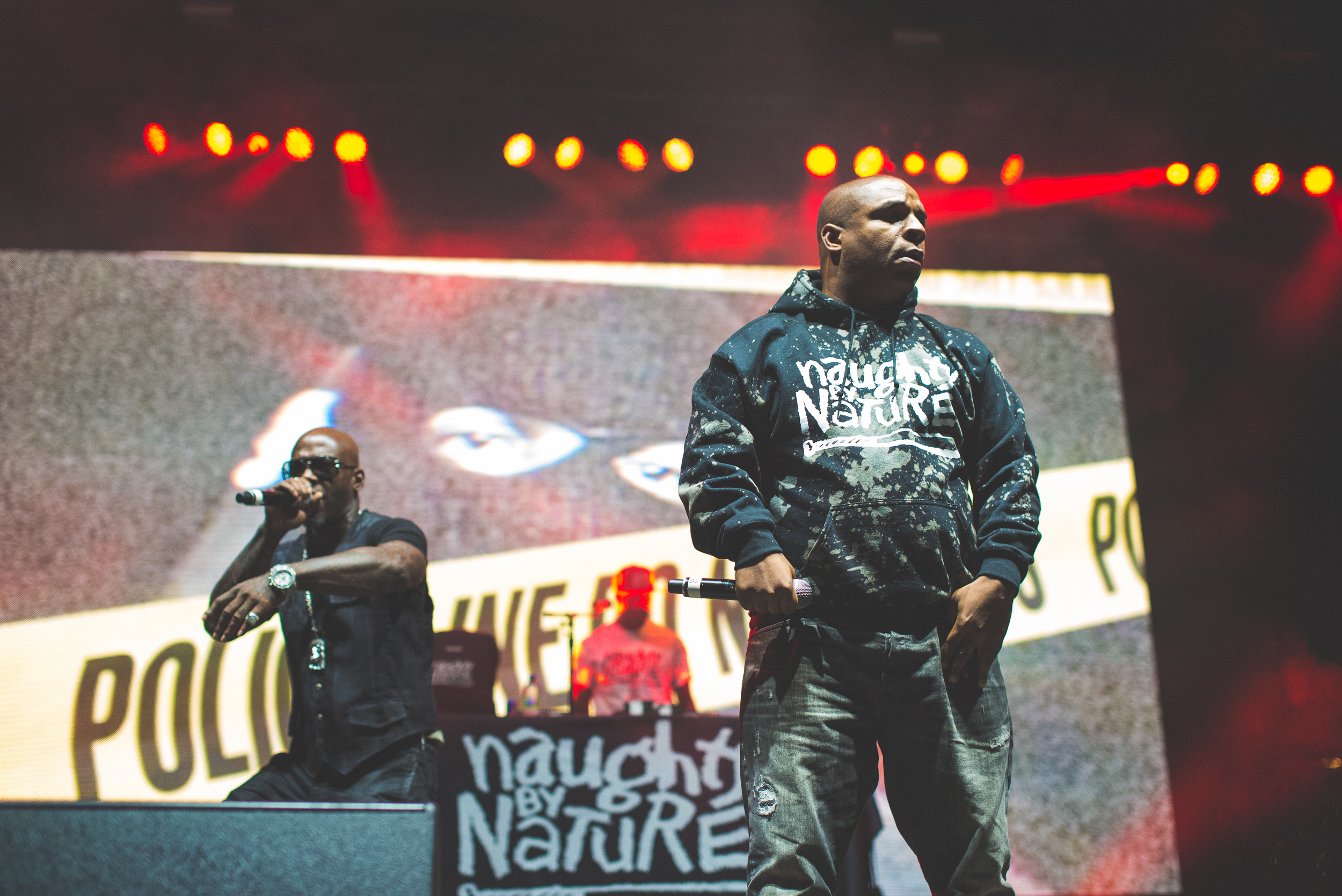 93-5 The Move presents Throwback Bash with TLC, Naughty by Nature and Kardinal Offishall at TD Echo Beach in Toronto on Saturday, September 24th 2016